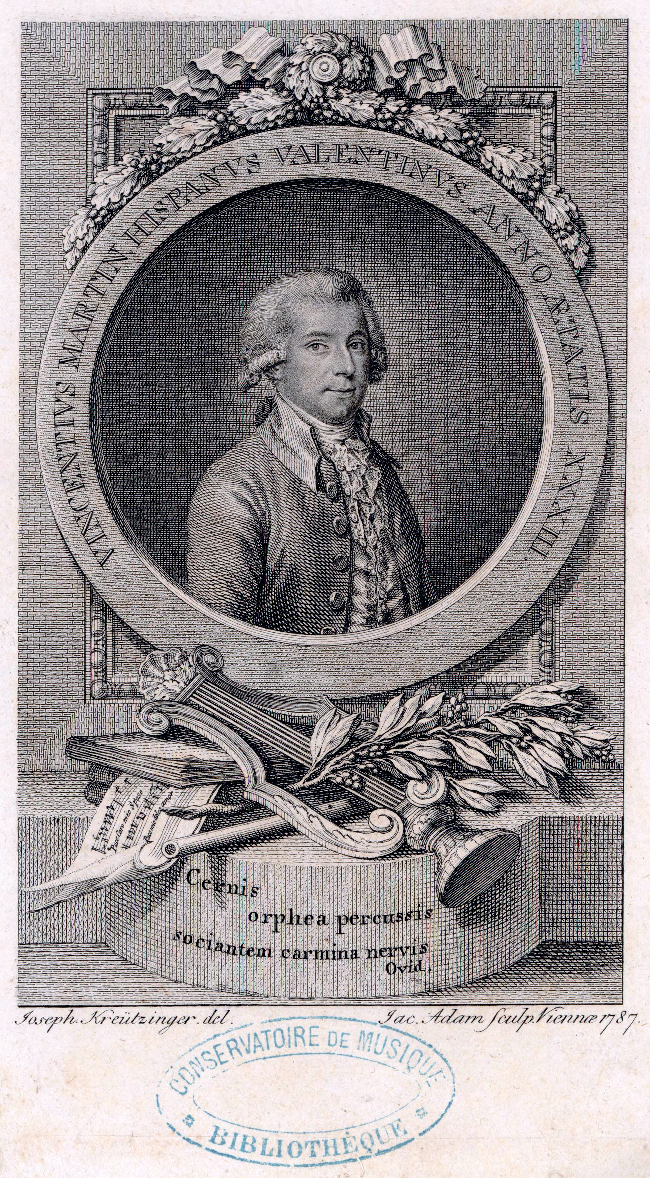 Vicente Martin y Soler, 23 years old. Portrait of Jacob Adam in Vienna, 1787, from Joseph Kreützinger. National Library of France.